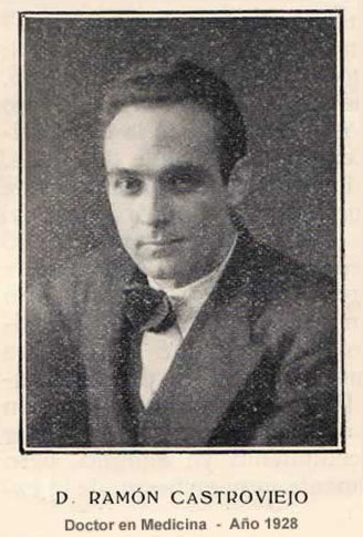 Old picture of Ramón Castroviejo (1928). One of the first to conduct corneal transplantation for keratoconus.